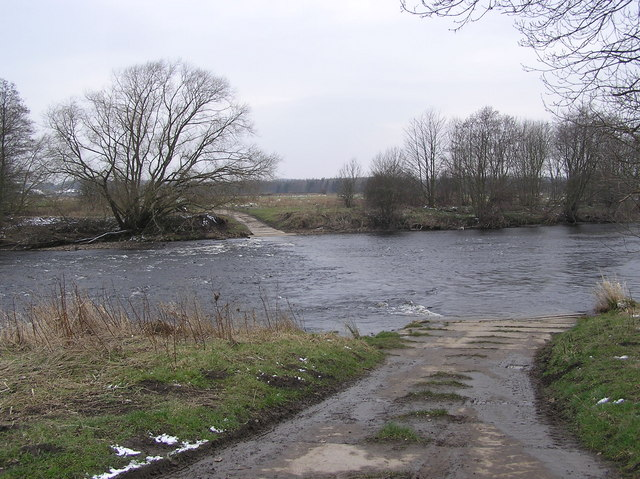 Ford to Swine Lairs Farm : River Tees. Photograph taken looking west across the Tees towards Swind Lairs farm. Merrybent is to the right of and behind the photographer. The Tees meanders greatly here, and at this point is going north-south, or from right to left in the picture.